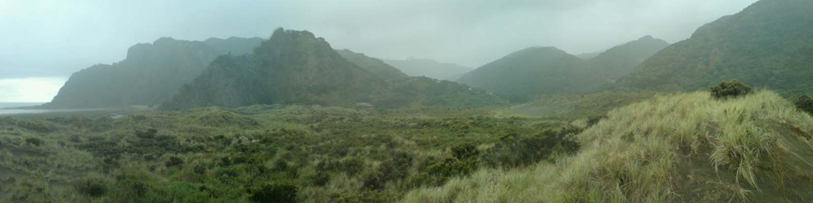 Karekare Beach in western Auckland, New Zealand.